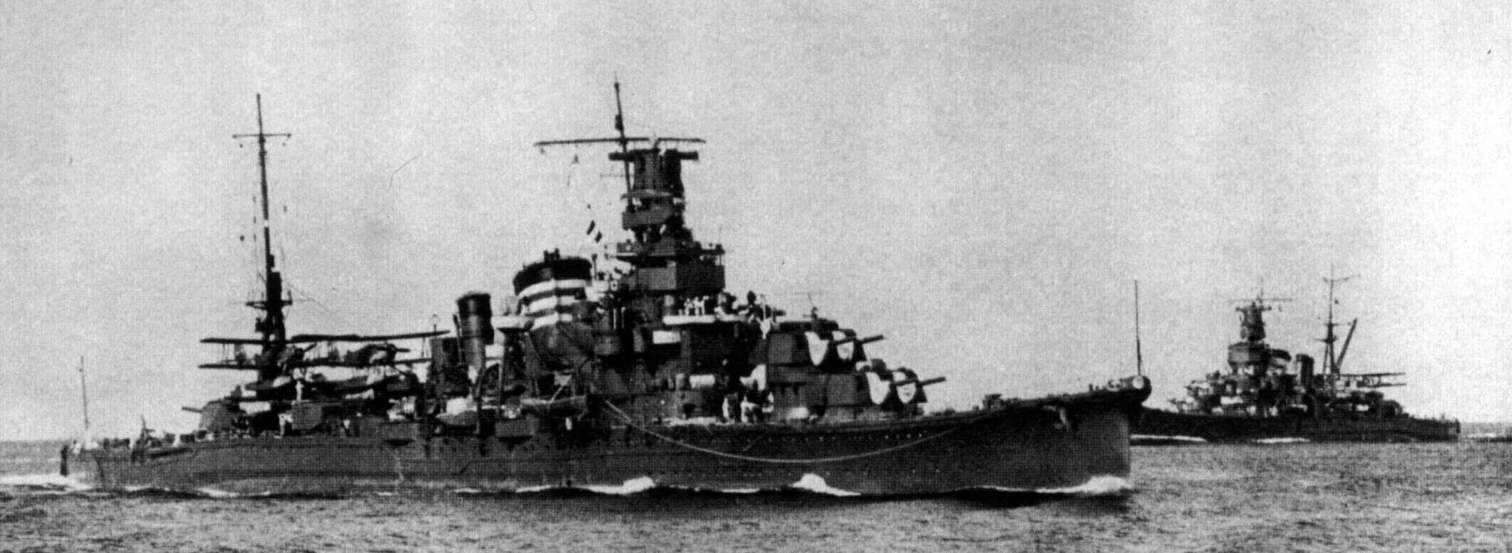 Heavy cruiser Furutaka with heavy cruiser Kinugasa in background. According to installation of degaussing cables, three white stripes on forward funnel and two E7K2 on board this picture should be taken in early November 1941. Note the main gun fire command room and rangefinder room installed on the top of the bridge.